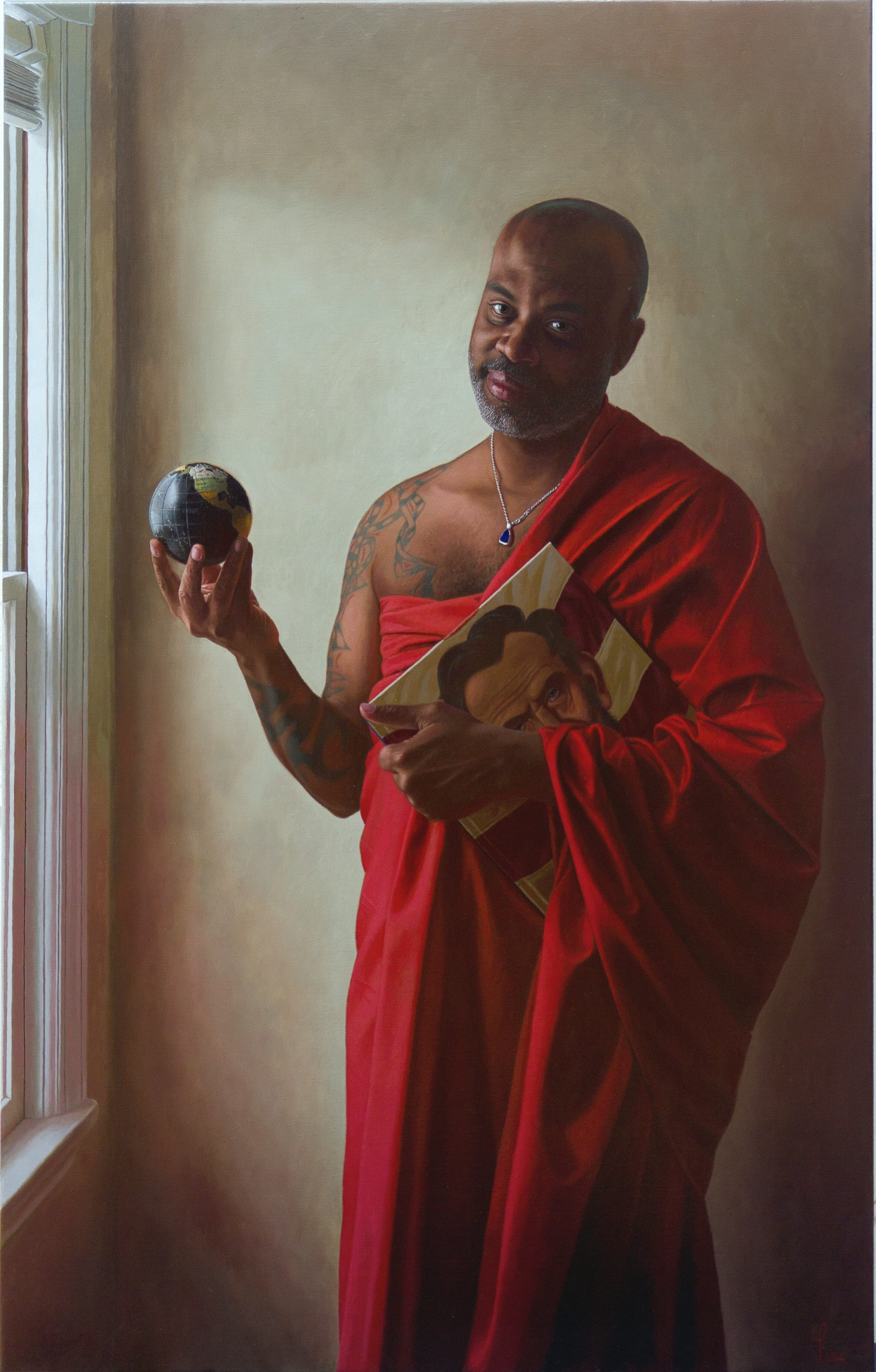 Painting of Wim Heldens' "America".